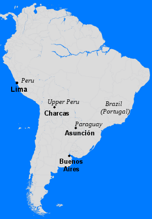 Cities of note in the Viceroyalty of Peru in the Revolt of the Comuneros (Paraguay) in 1721.